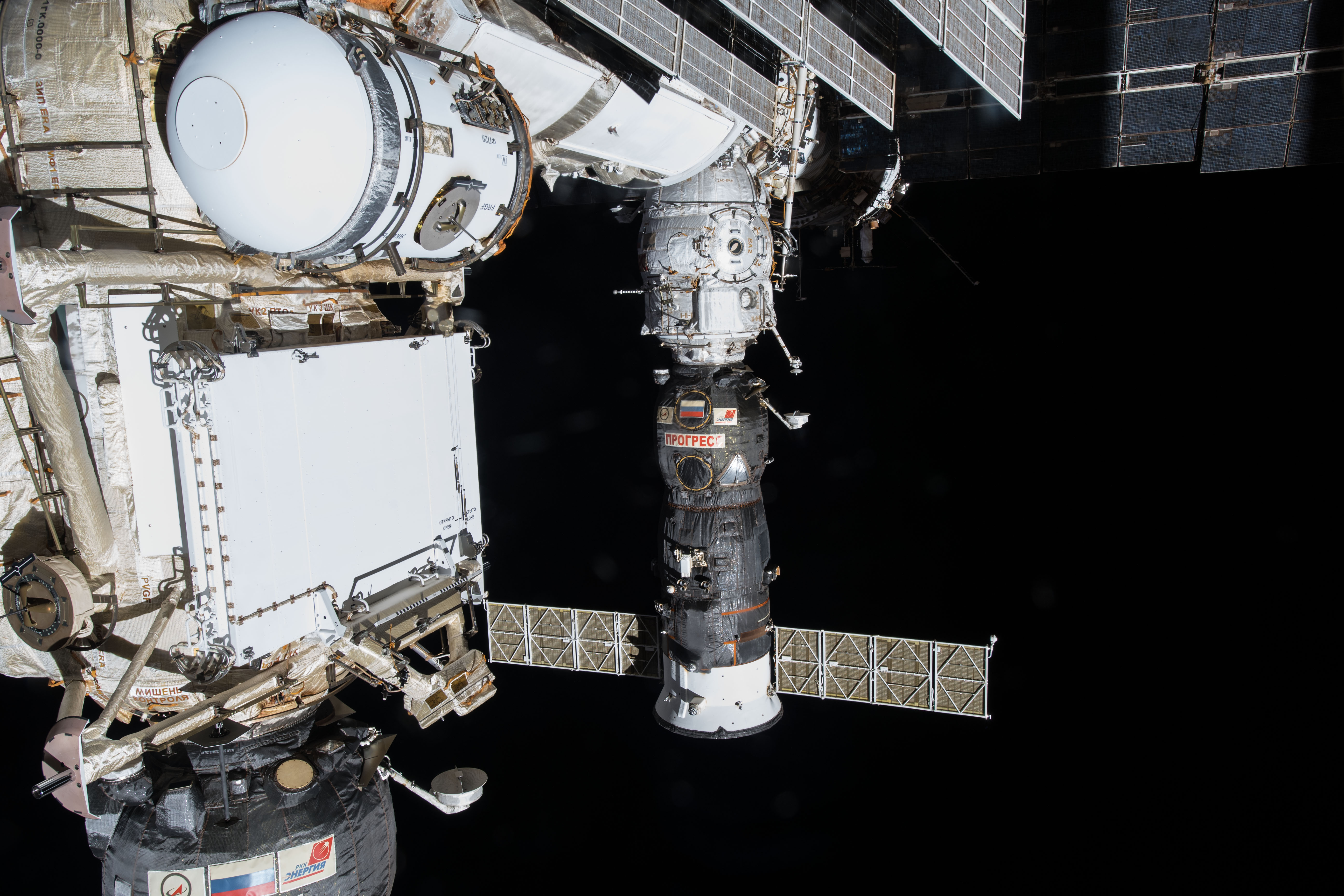 Russia's Progress 68 resupply ship is pictured docked to the Poisk Pirs docking compartment a few days before it completed its cargo mission and undocked on March 28, 2018 for a month of orbital engineering tests.